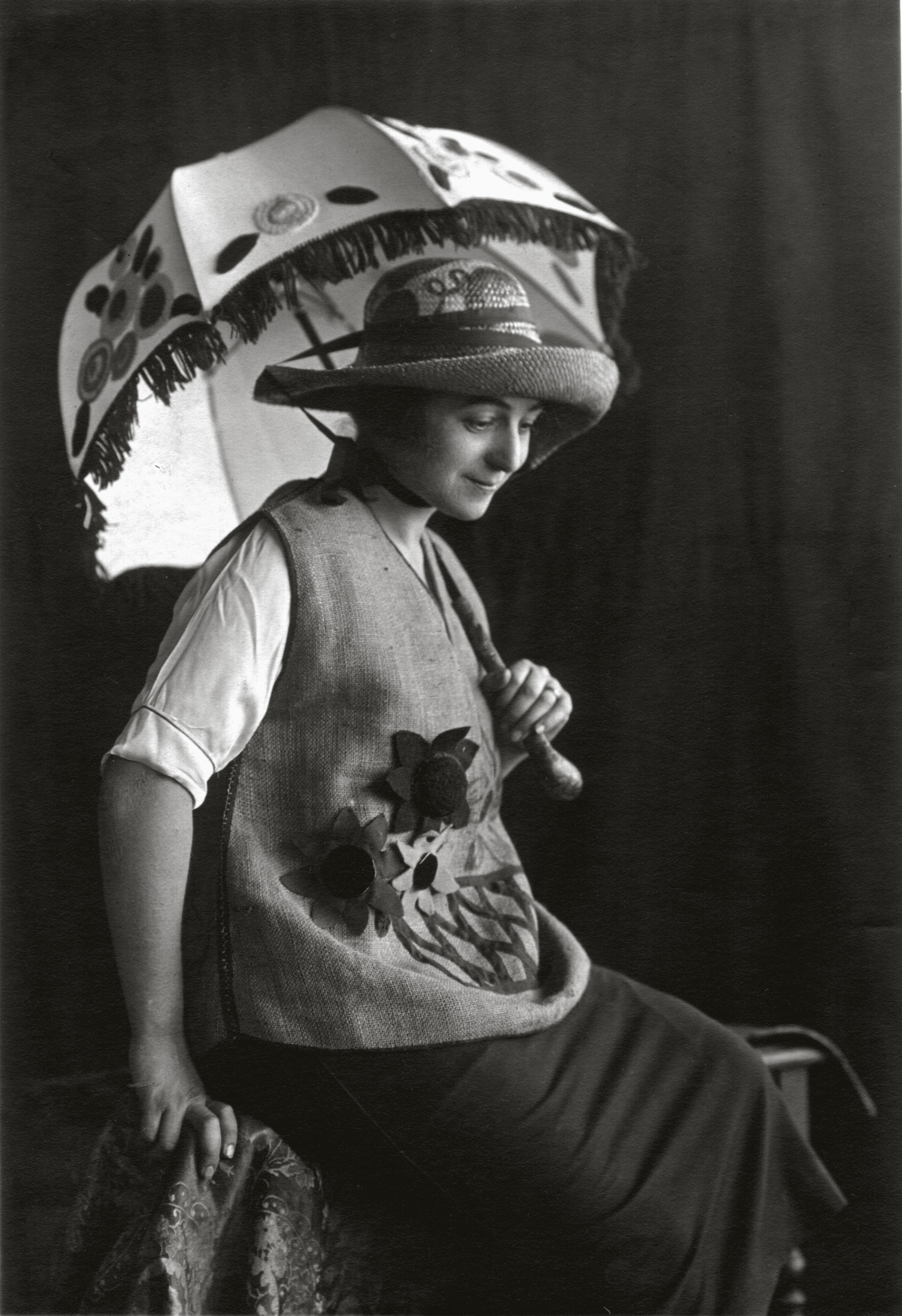 Sonia Delaunay wearing Casa Sonia creations, Madrid, c.1918-20